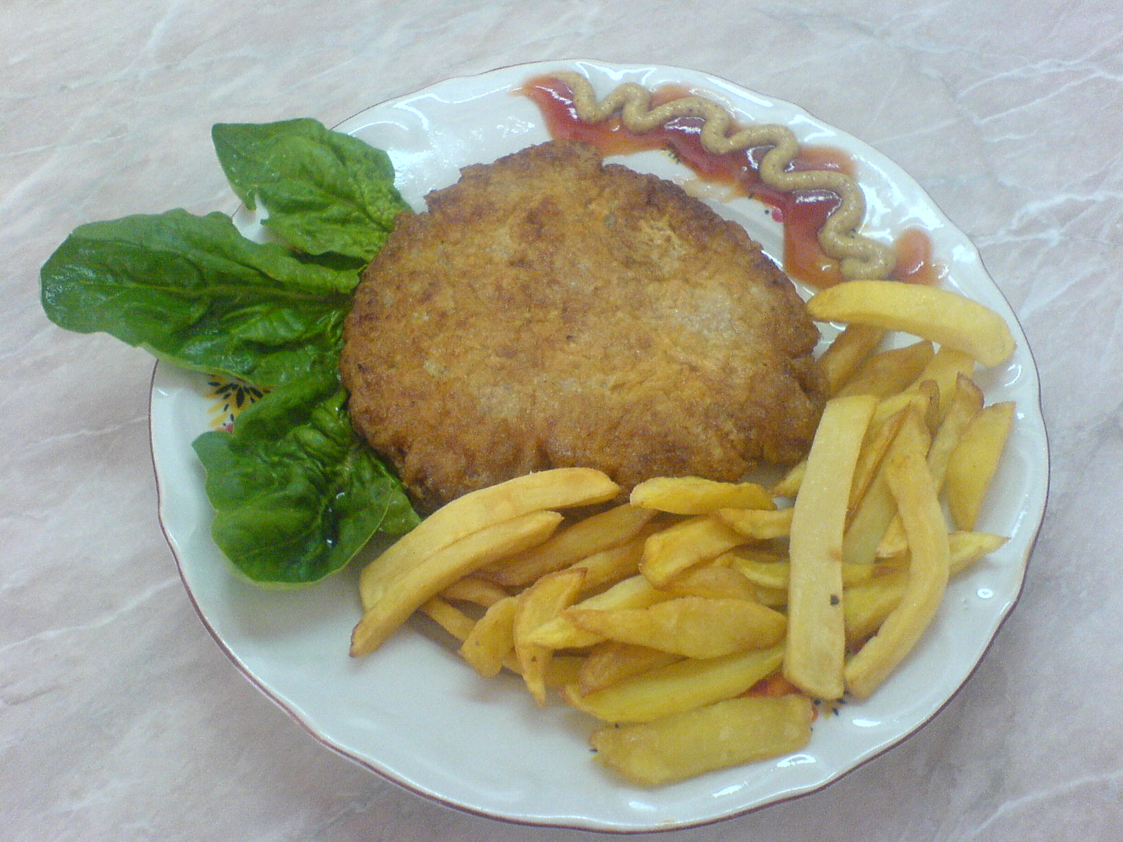 Shnitzel from chop meat